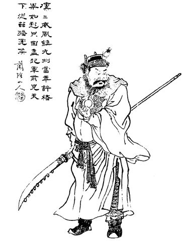 Qing dynasty portrait of Xu Chu